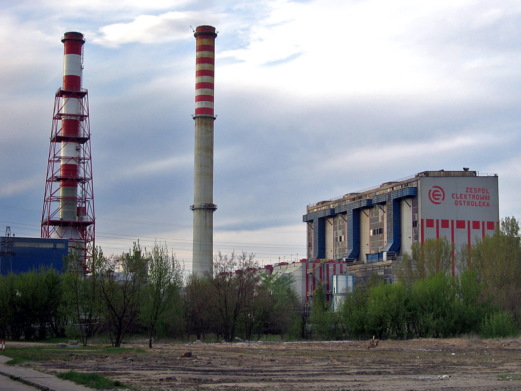 City of Ostroleka (Poland), the power-station complex